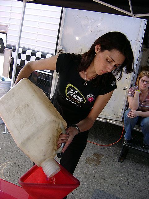 Mendy Fry pours nitromethane